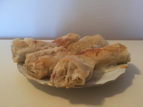 Macedonian apple strudel